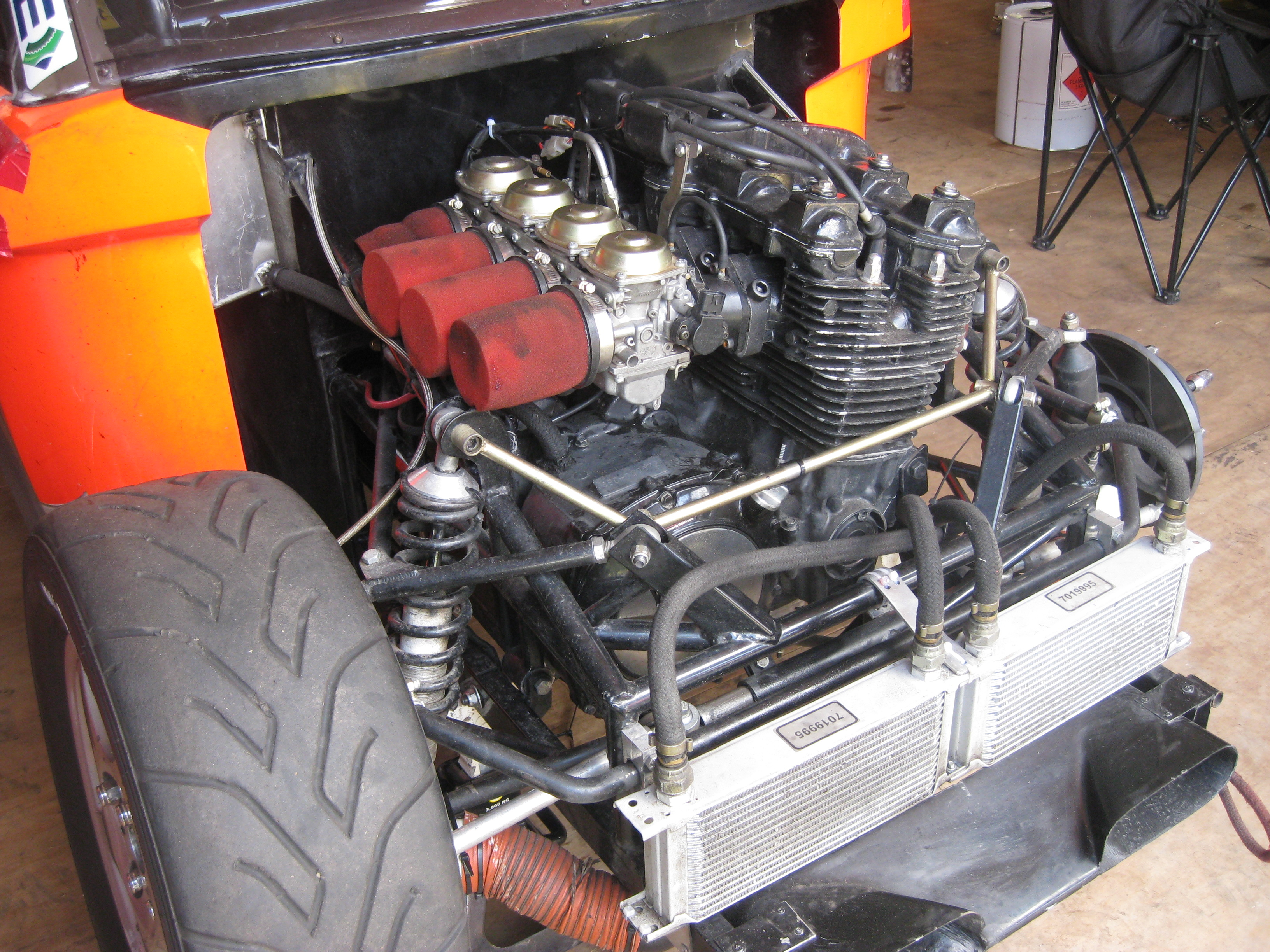 Yamaha engine in an Aussie Racing Car at the Adelaide round of the 2012 Aussie Racing Car Series.